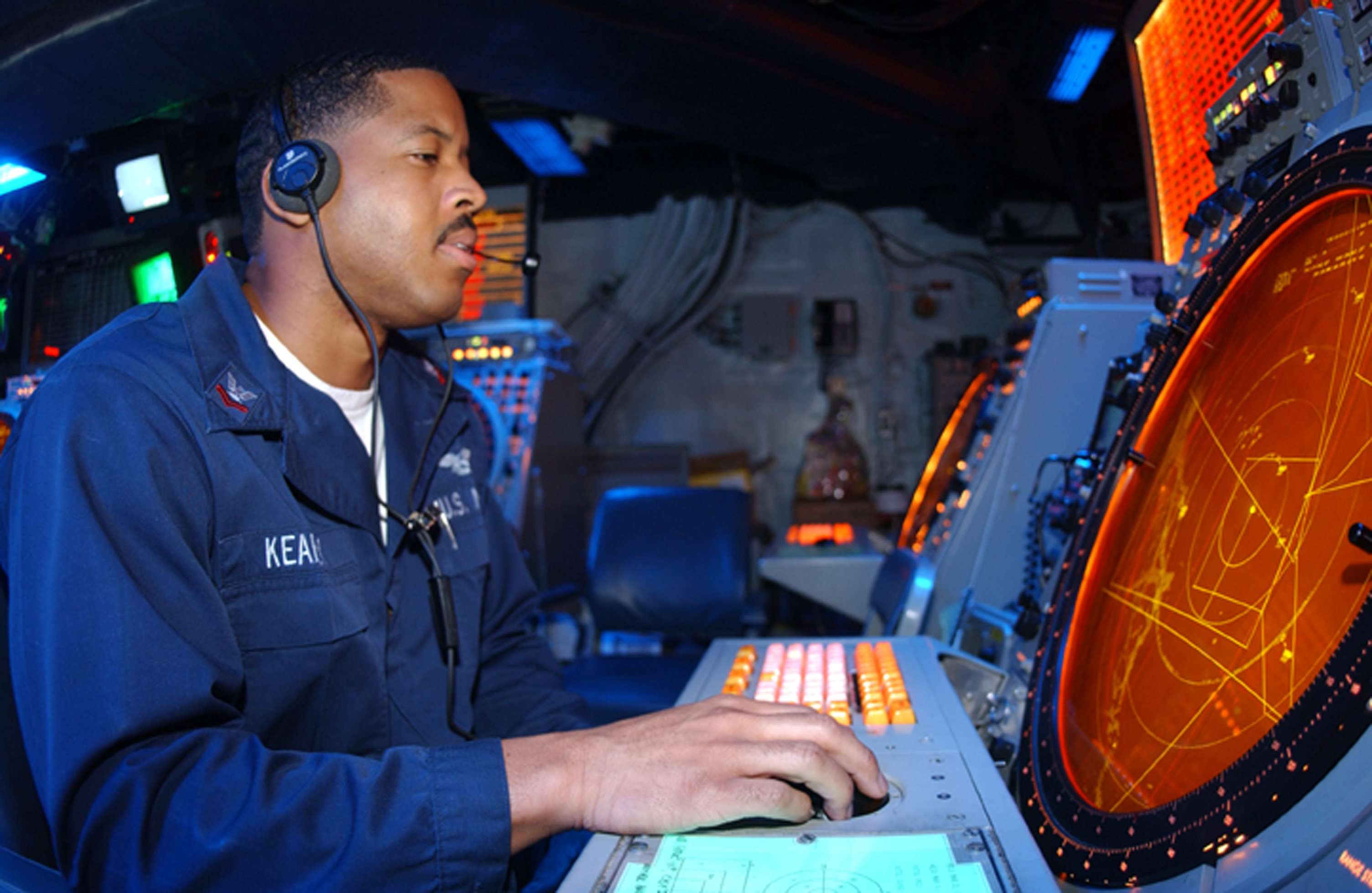 The Arabian Gulf (mar. 23, 2003) -- Air Traffic Controller 2nd Class Torie Kearney from San Diego, Calif., waits for AV-8B Harriers to return to USS Bonhomme Richard (LHD 6). Bonhomme Richard is deployed to the Arabian Gulf in support of Operation Iraqi Freedom, the multi-national coalition effort to liberate the Iraqi people, eliminate Iraq's weapons of mass destruction, and end the regime of Saddam Hussein. U.S. Navy photo by Photographer's Mate 3rd Class Chris Reynolds. (RELEASED)